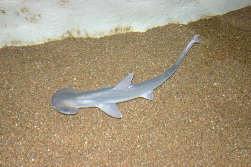 Bonnethead shark (Sphyrna tiburo) at the Texas State Aquarium